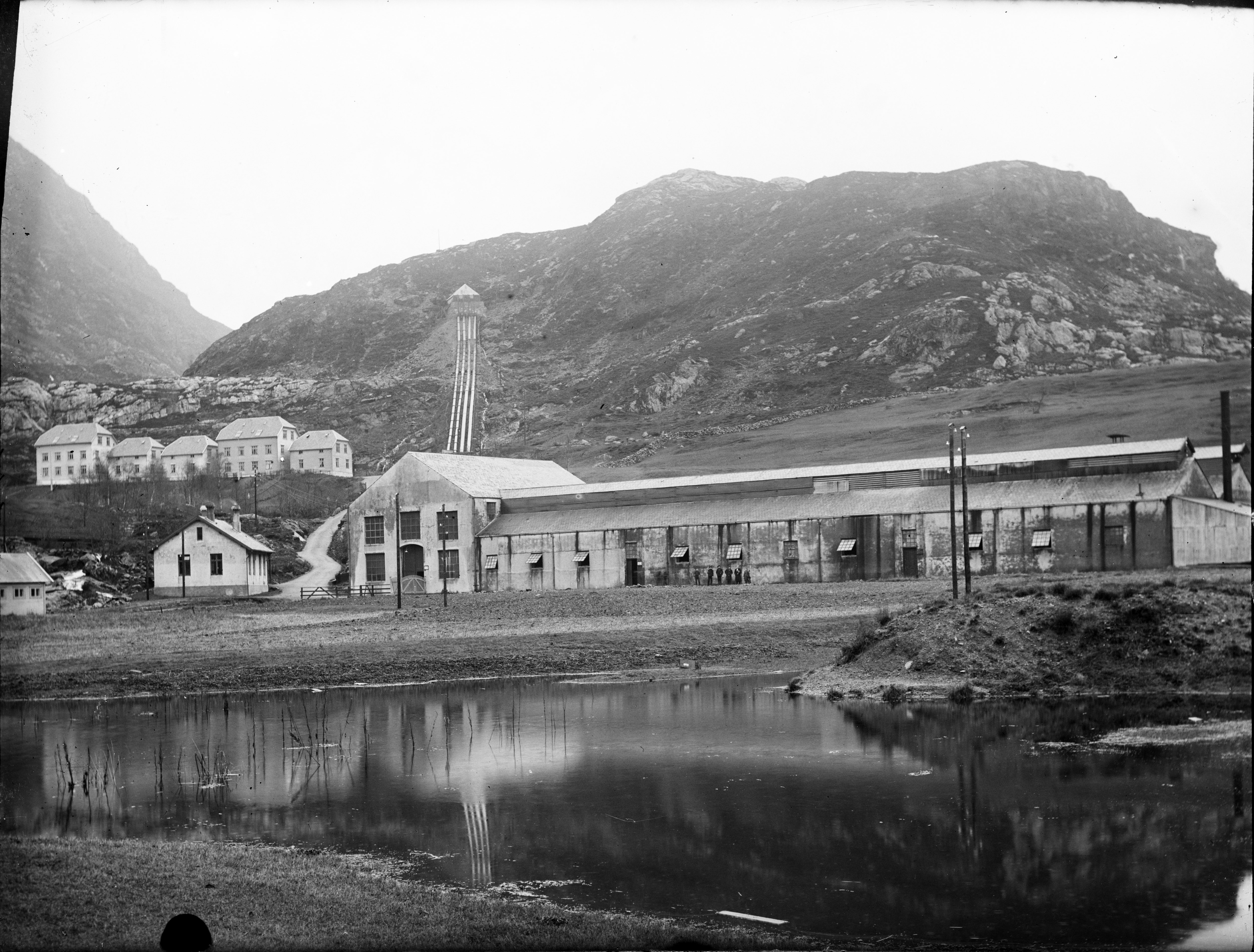 AS Stangfjorden Elektrokemiske Fabriker established in 1897 originally produced iodine and peat coal. In 1906 the factory was bought by British Aluminium Company (BACO), who turned it into the first aluminium factory in Scandinavia. Identifier: SFFf-1989091.162982